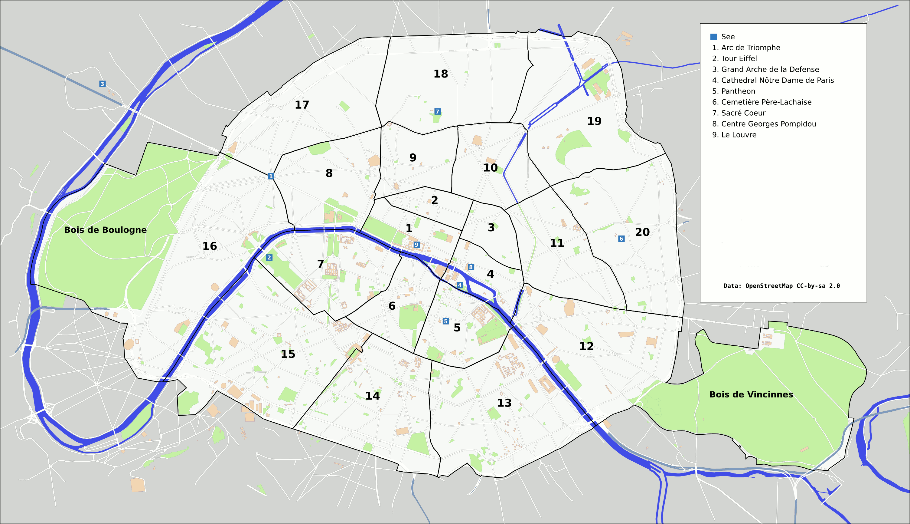 Overview map of Paris, Paris.